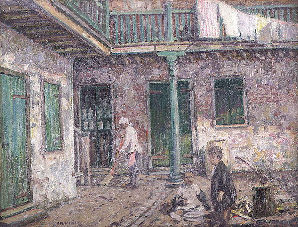 scene with children and woman sweeping.